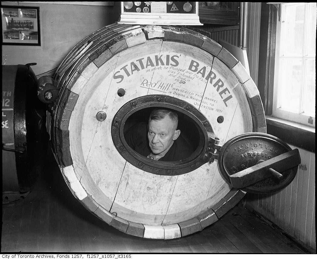 Photographer: Alexandra Studio ca. 1935 City of Toronto Archives Series 1057, Item 3165